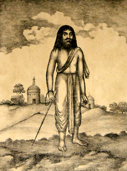 The following illustrations are from the book entitled "The Ten Principal Avataras of the Hindus: A Short History of Each Incarnation and Directions for the Representations of the Murtis as Tableaux Vivants" by Sourindo Mohun Tagore, published in 1880 in Calcutta.